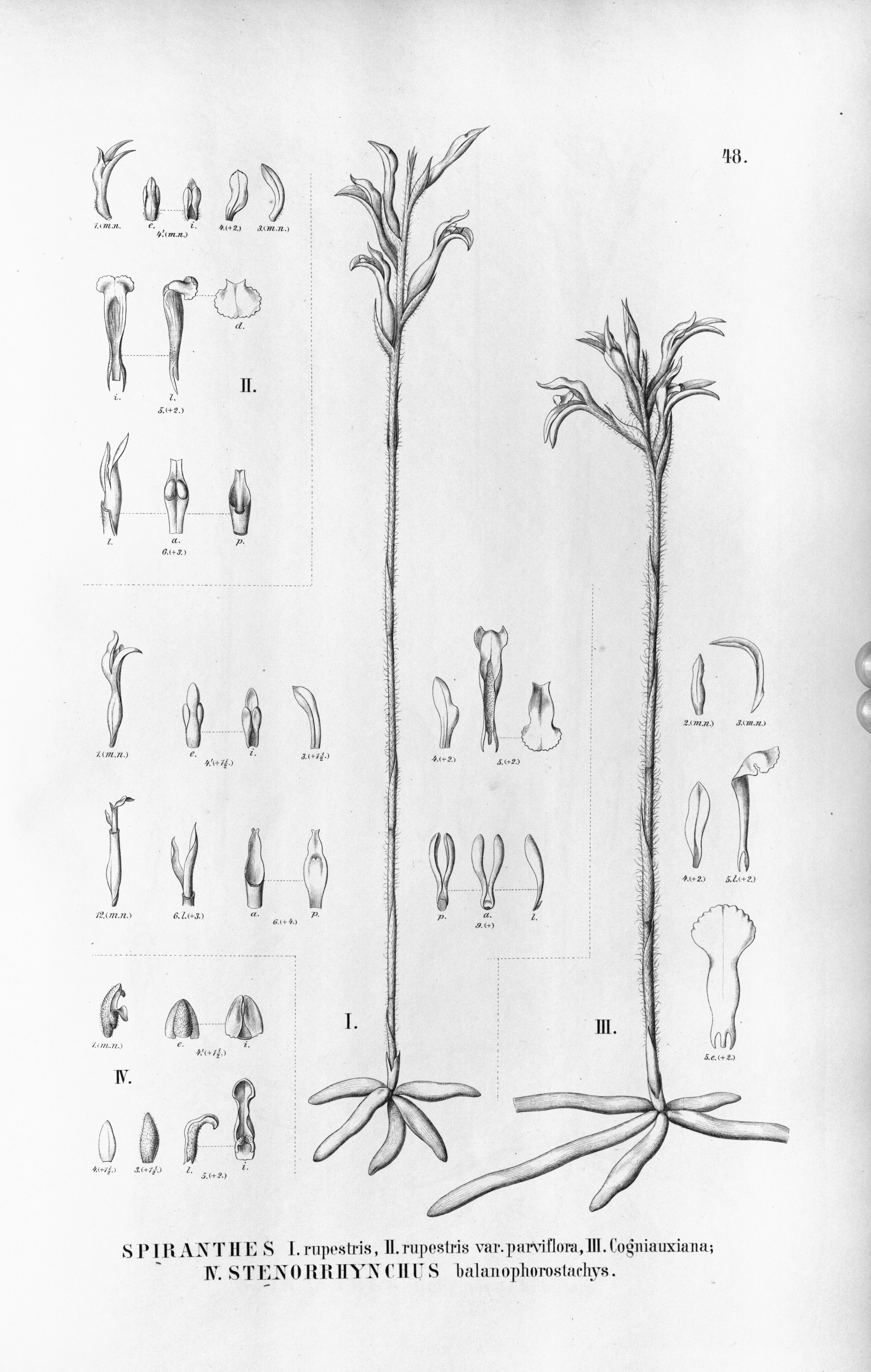 Illustration of: I, Skeptrostachys rupestris (as syn. Spiranthes rupestris) II. Skeptrostachys rupestris (as syn. Spiranthes rupestris var. parviflora) III. Veyretia cogniauxiana (as syn. Spiranthes cogniauxiana) IV. Skeptrostachys balanophorostachya (as syn. Stenorrhynchos balanophorostachyum, spelled by Cogniaux as Stenorrhynchos balanophorostachys)